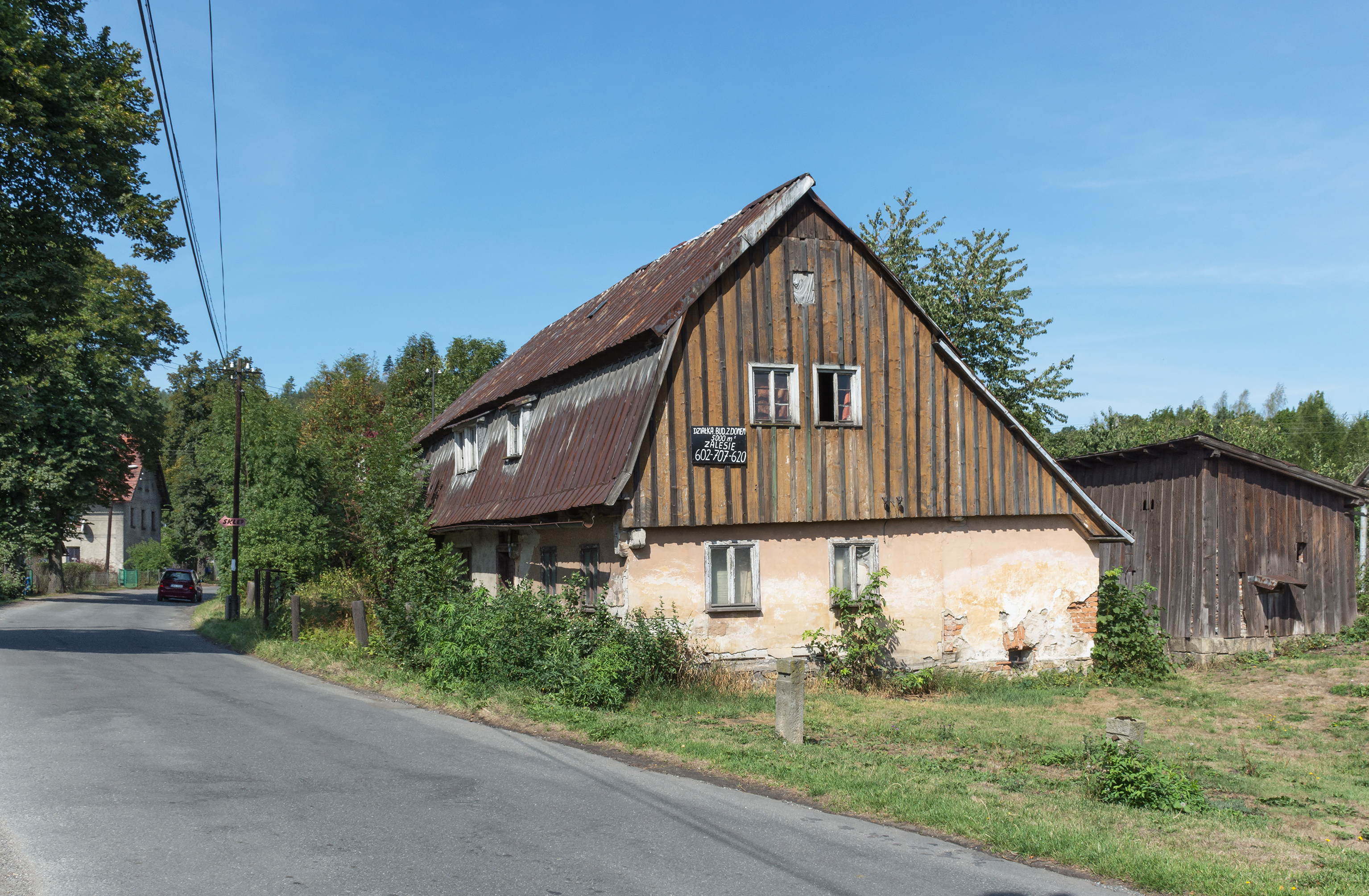 House No. 68 in Stara Bystrzyca